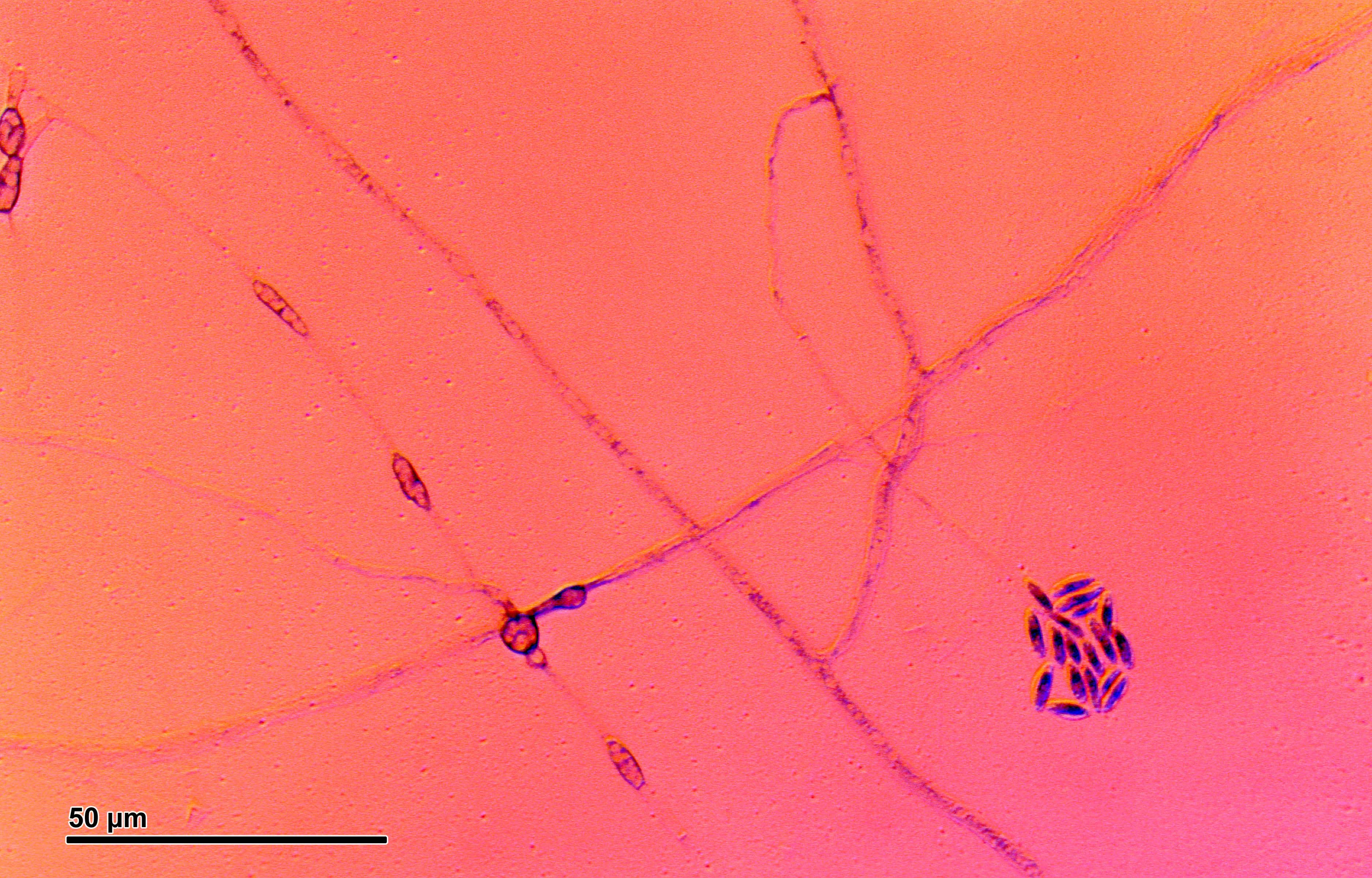 Pythium. Optical microscopy technique: Differential interference contrast (Nomarski). Magnification: 1200x (for picture width 26 cm ~ A4 format).